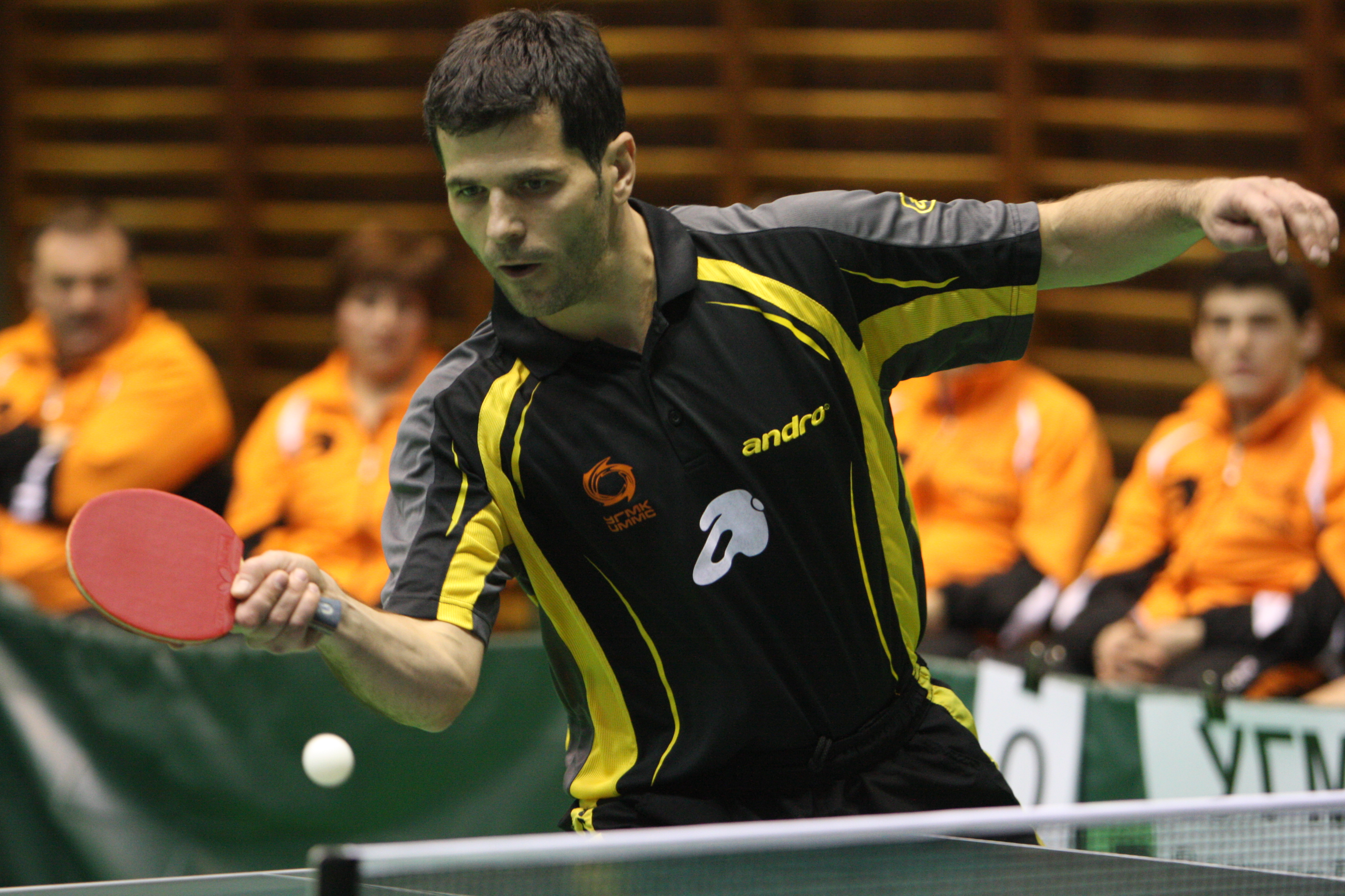 Zoran Primorac in 2009